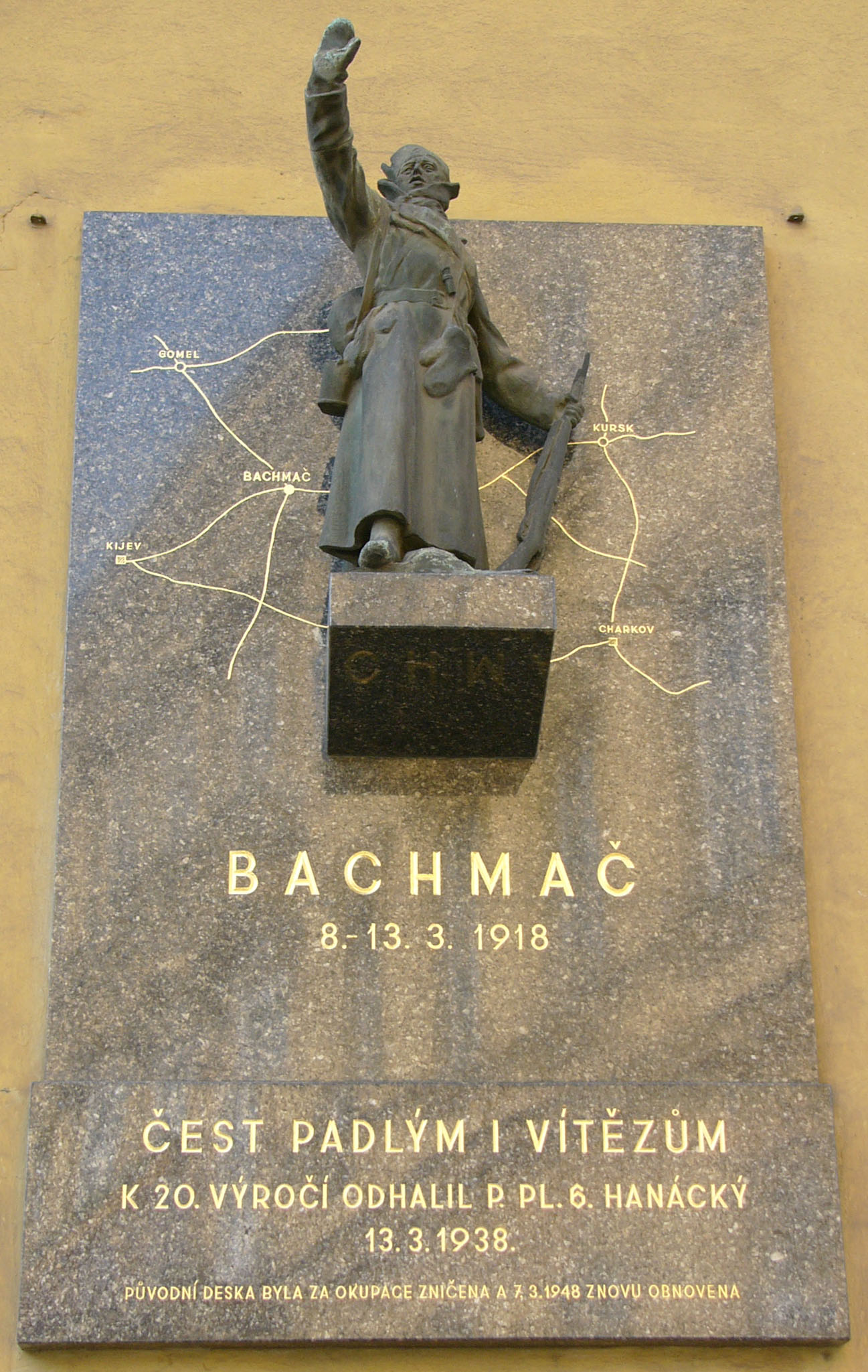 Memorial plaque of Battle of Bakhmach in Olomouc (Czech Republic). (Battle was in Ukraine. Statue of legionar in winter uniform was made by Otakar Španiel is original (from 1938). The plaque is replica of original plaque from 1938 made in 1948.)